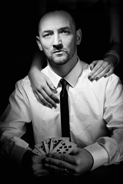 Mark Noyce as the 'confused Poker player'